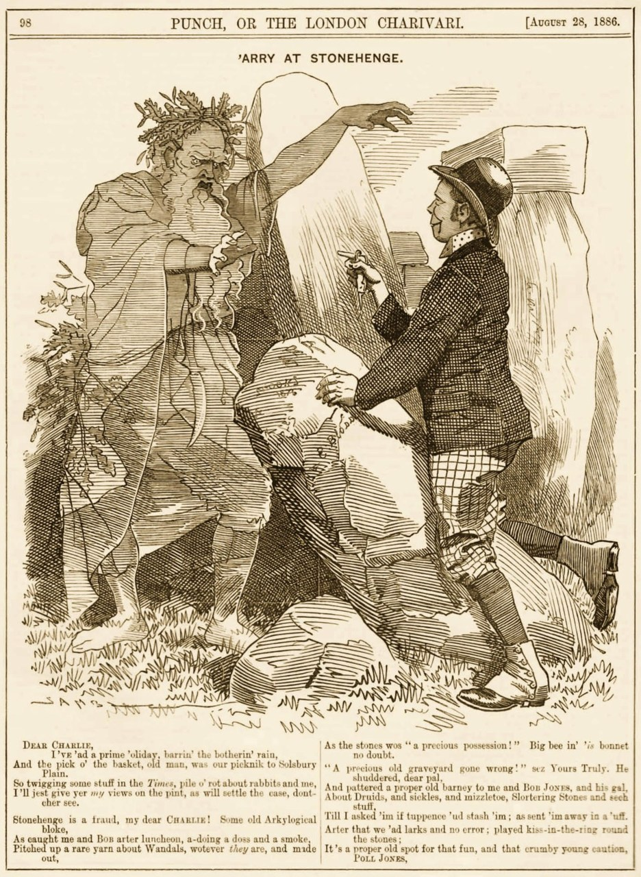 'Arry at Stonehenge, Punch cartoon from 1886. 'Arry the creation of Edwin James Milliken